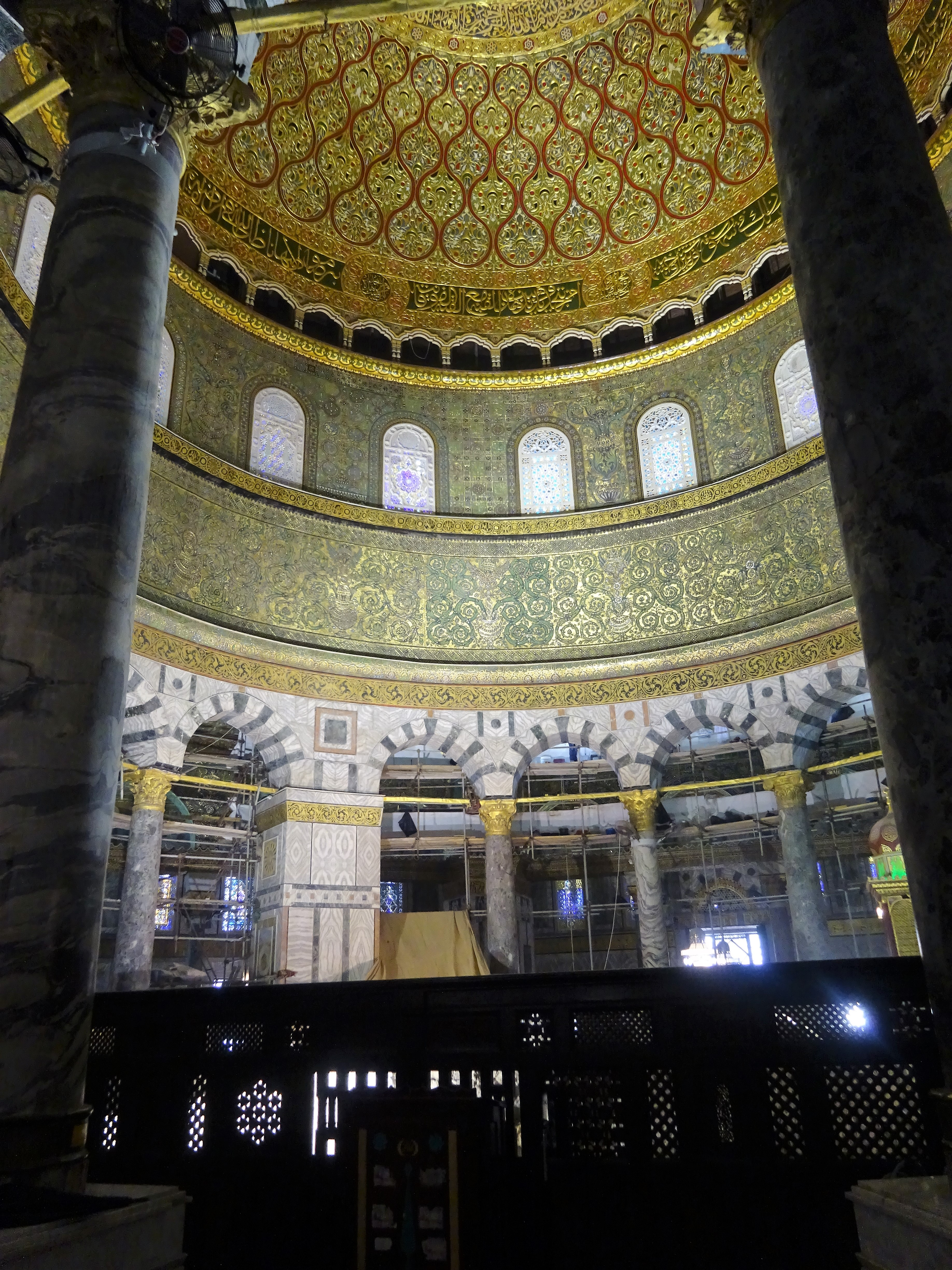 Inside Dome of the Rock (Jerusalem 2018)